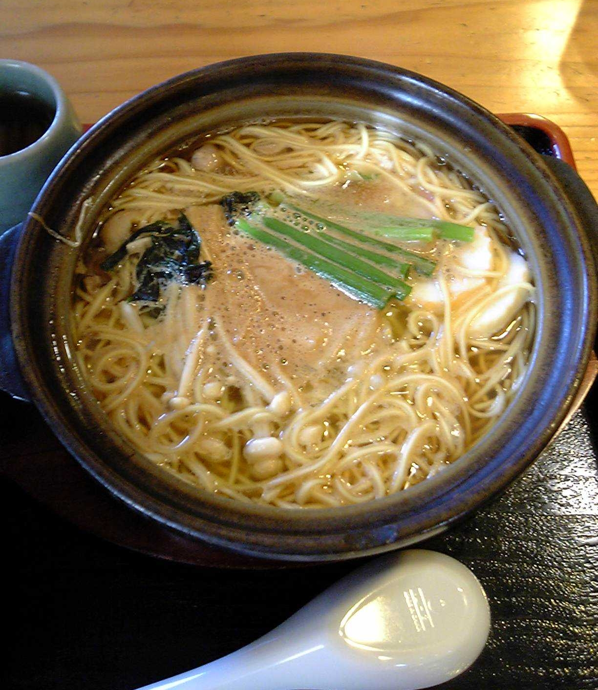 Nabeyaku ramen